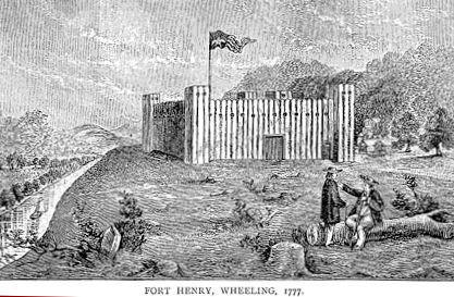 Drawing of the actual fort in Wheeling, WV